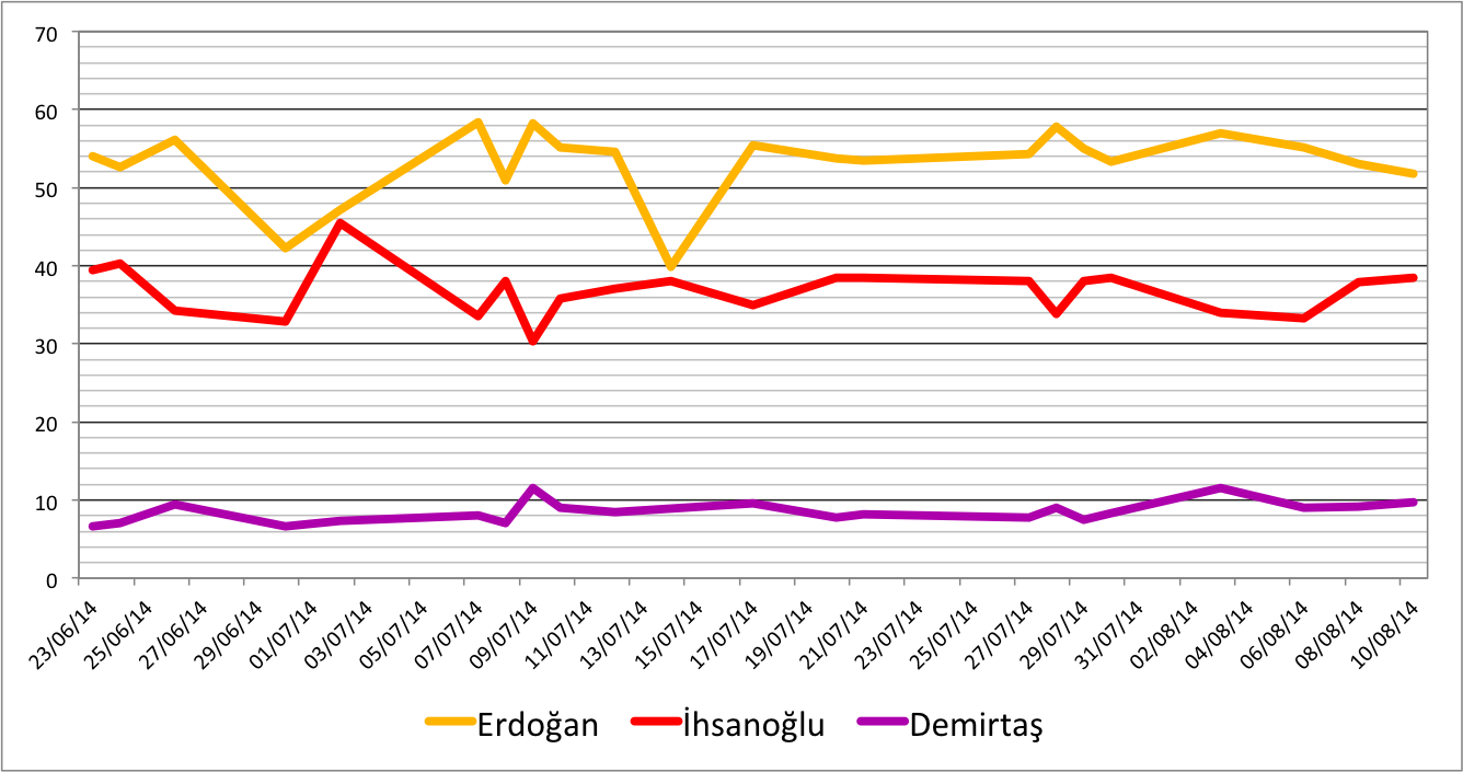 Opinion polling for the 2014 Turkish presidential election, created using Microsoft Excel for Mac 2011